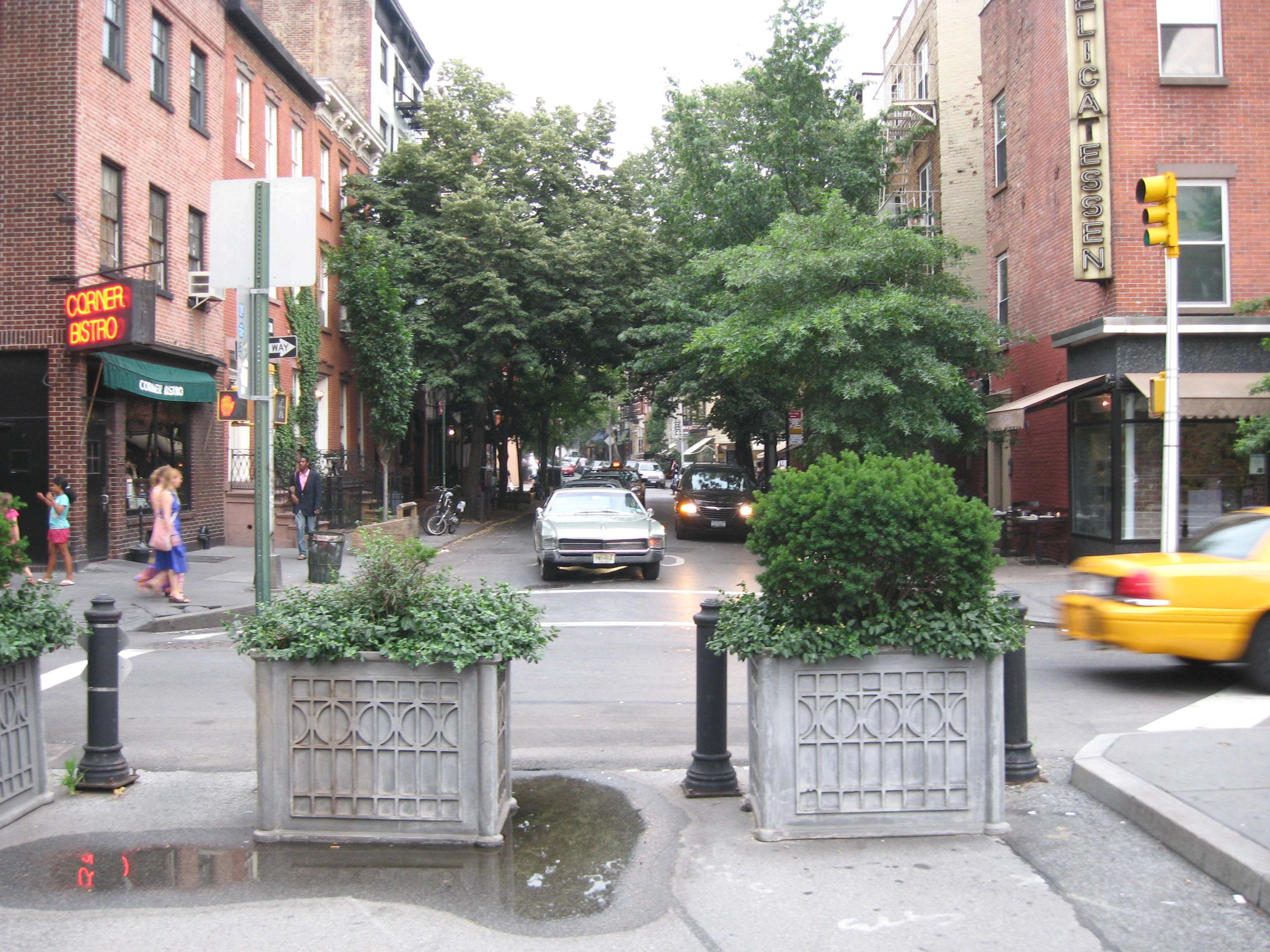 Looking south from 8th Avenue across Jane Street and down West en:4th Street (Manhattan) on a cloudy late afternoon July 2008.